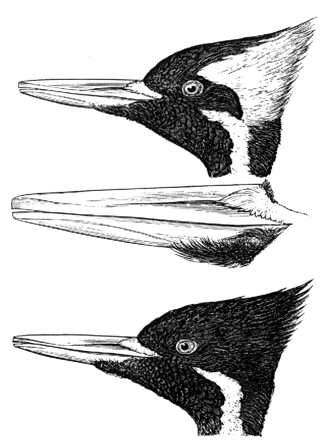 Ivory-billed Woodpecker, Campephilus principalis, male (above, with detail of bill), and female (below) lithograph or engraving/etching